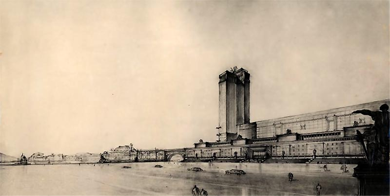 NKTP Draft contest, Panteleimon Golosov, 1934, view to the north